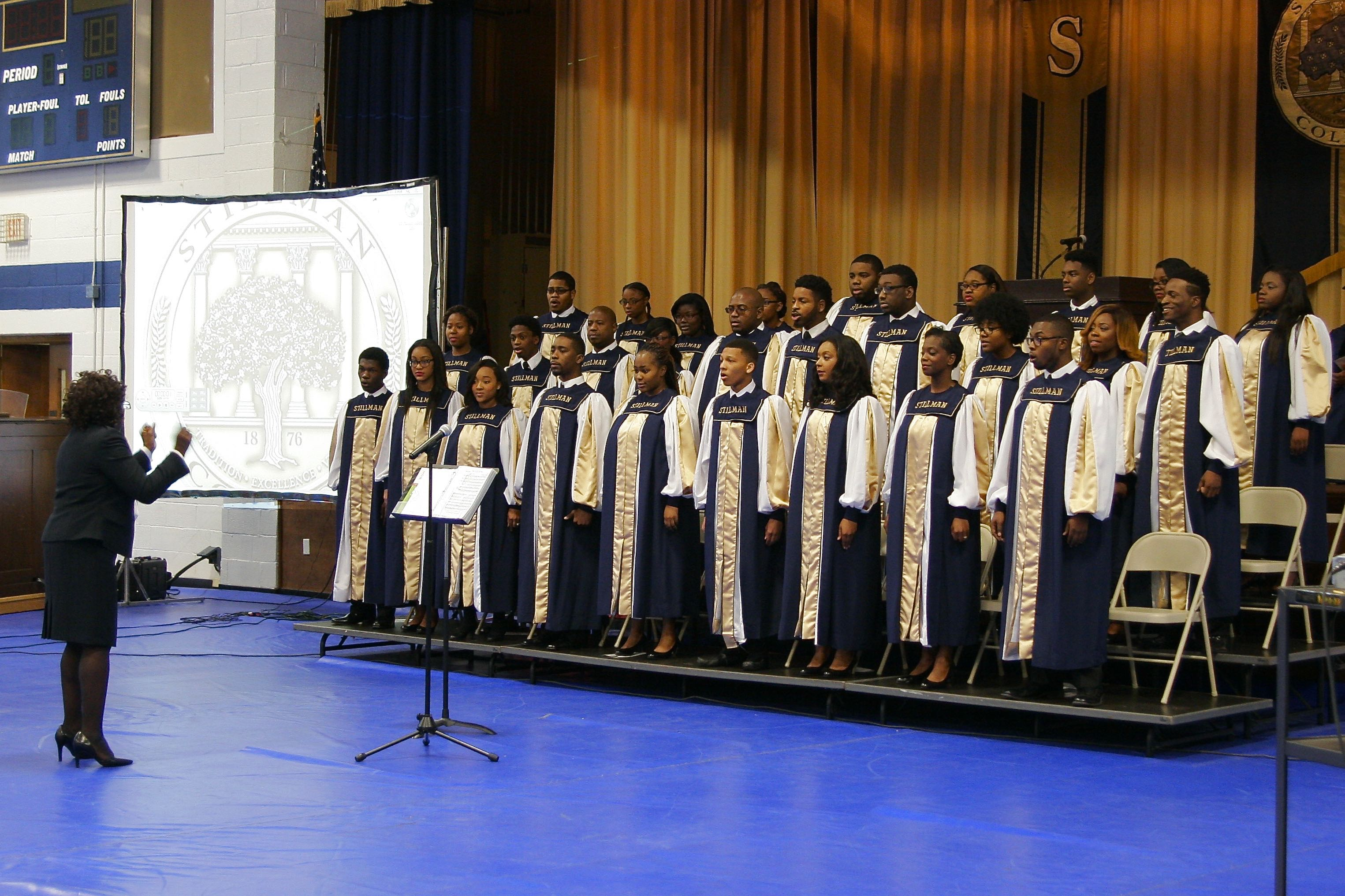 Stillman College Choir performs at Fall Convocation